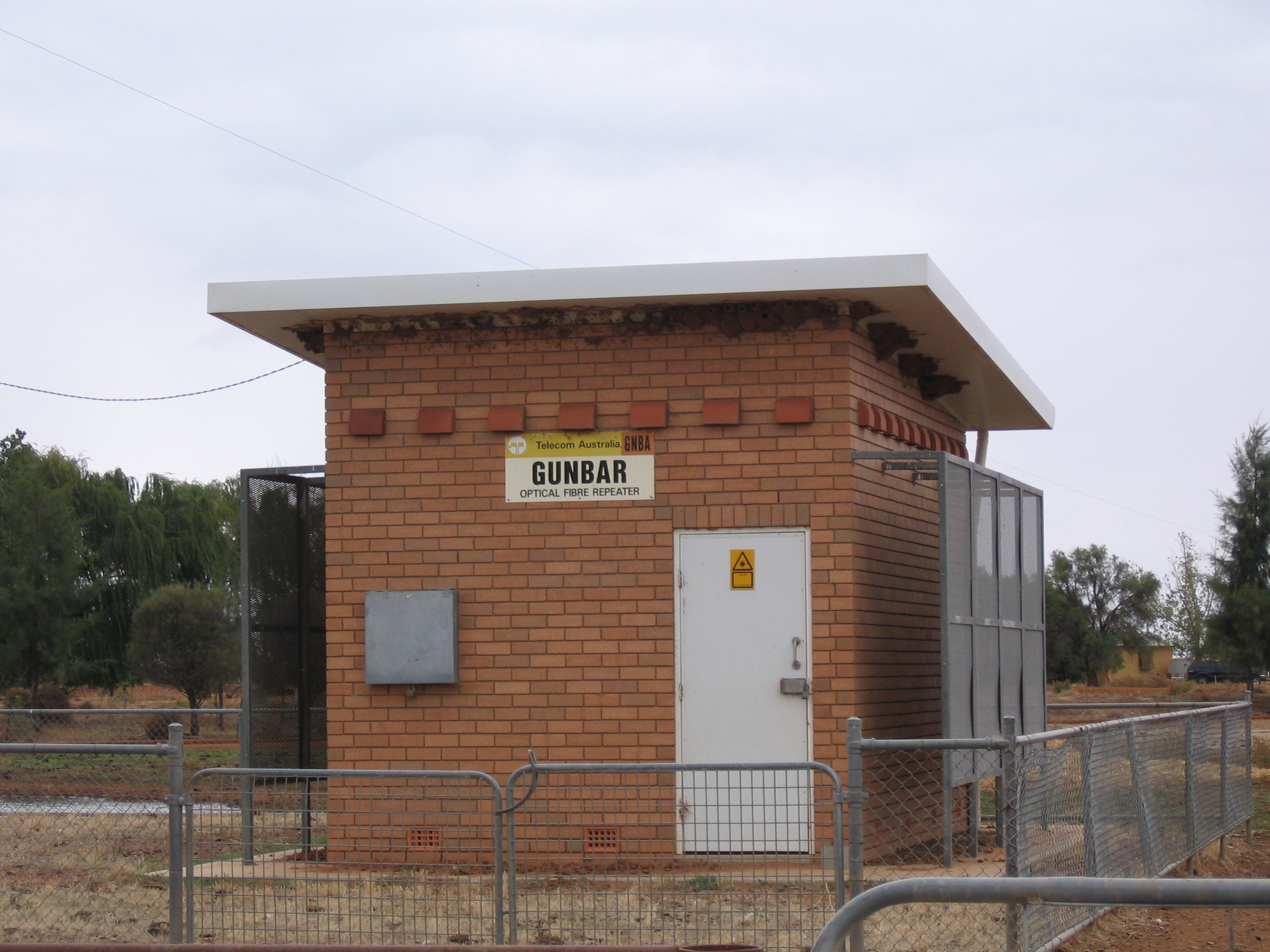 Optical fibre repeater at Gunbar, New South Wales